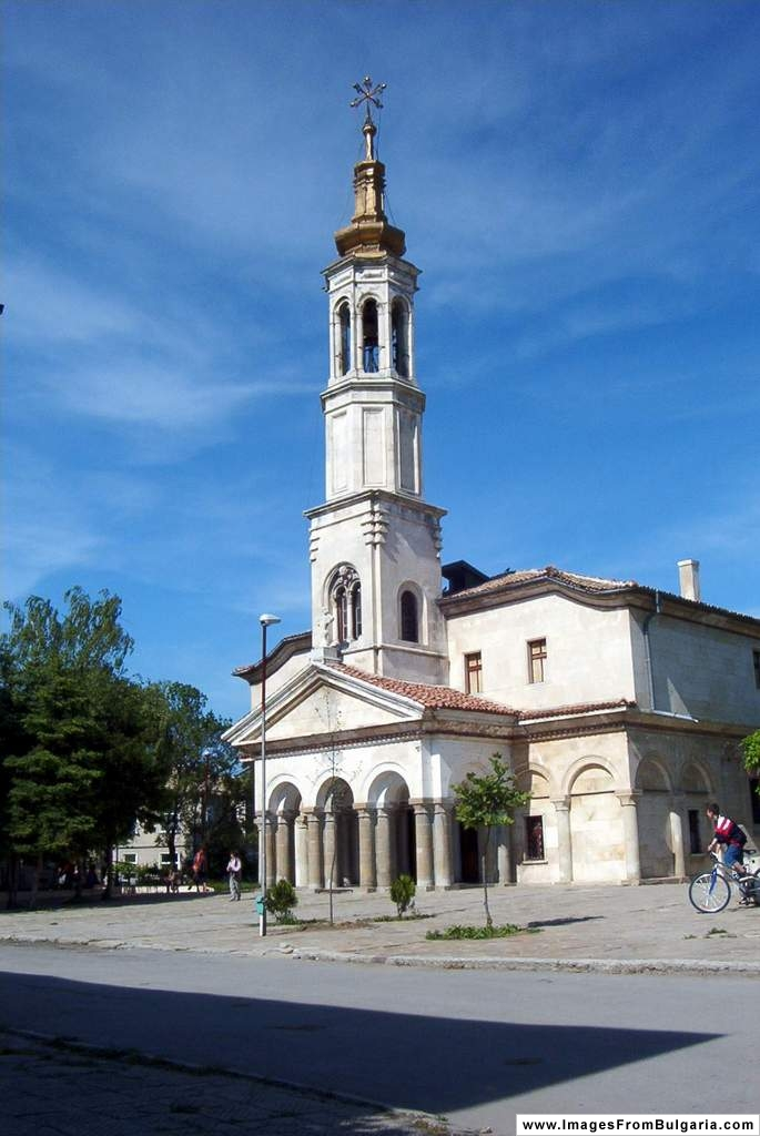 Church of the Dormition of the Holy Mother of God (1851), Targovishte, Bulgaria